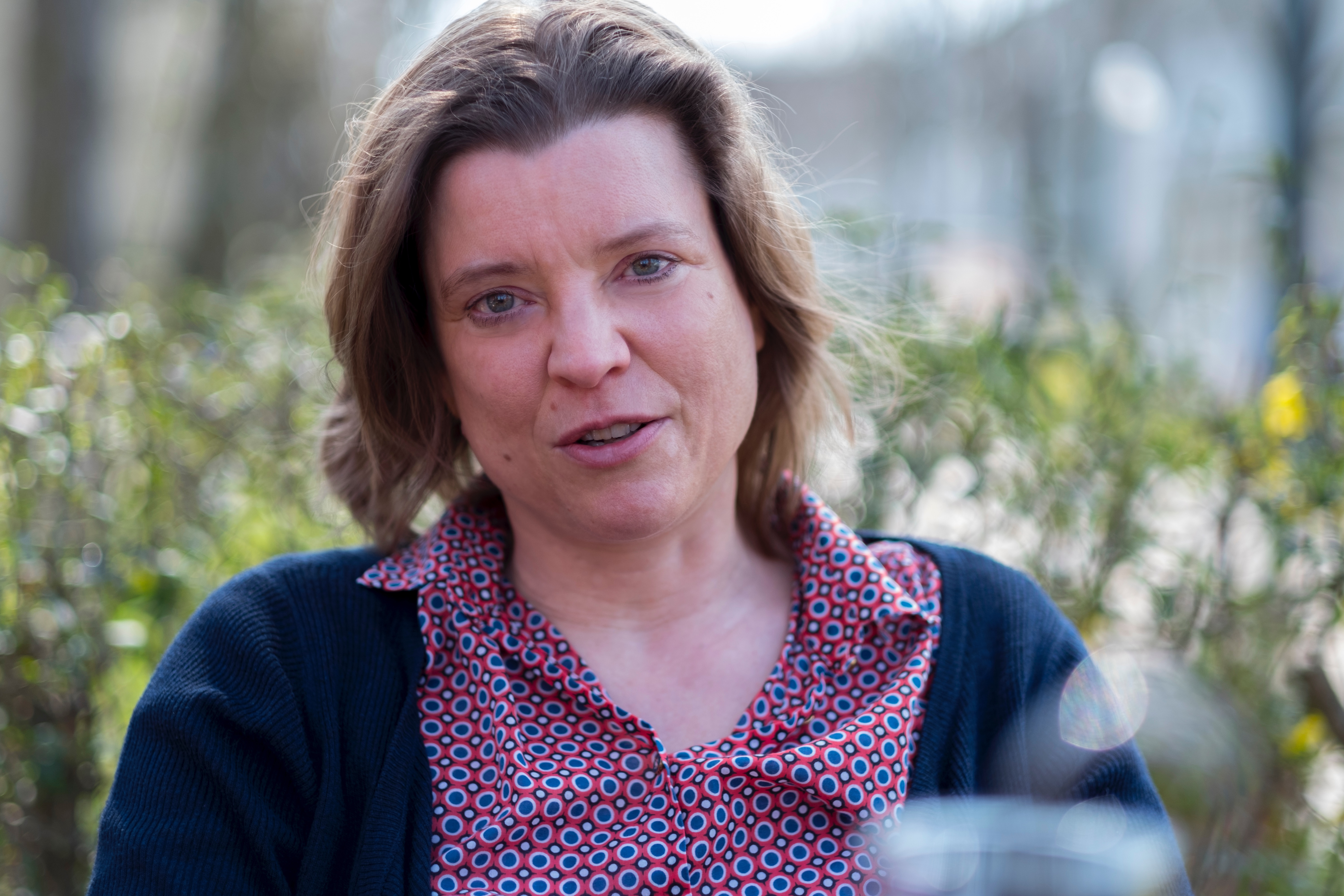 Portrait photo